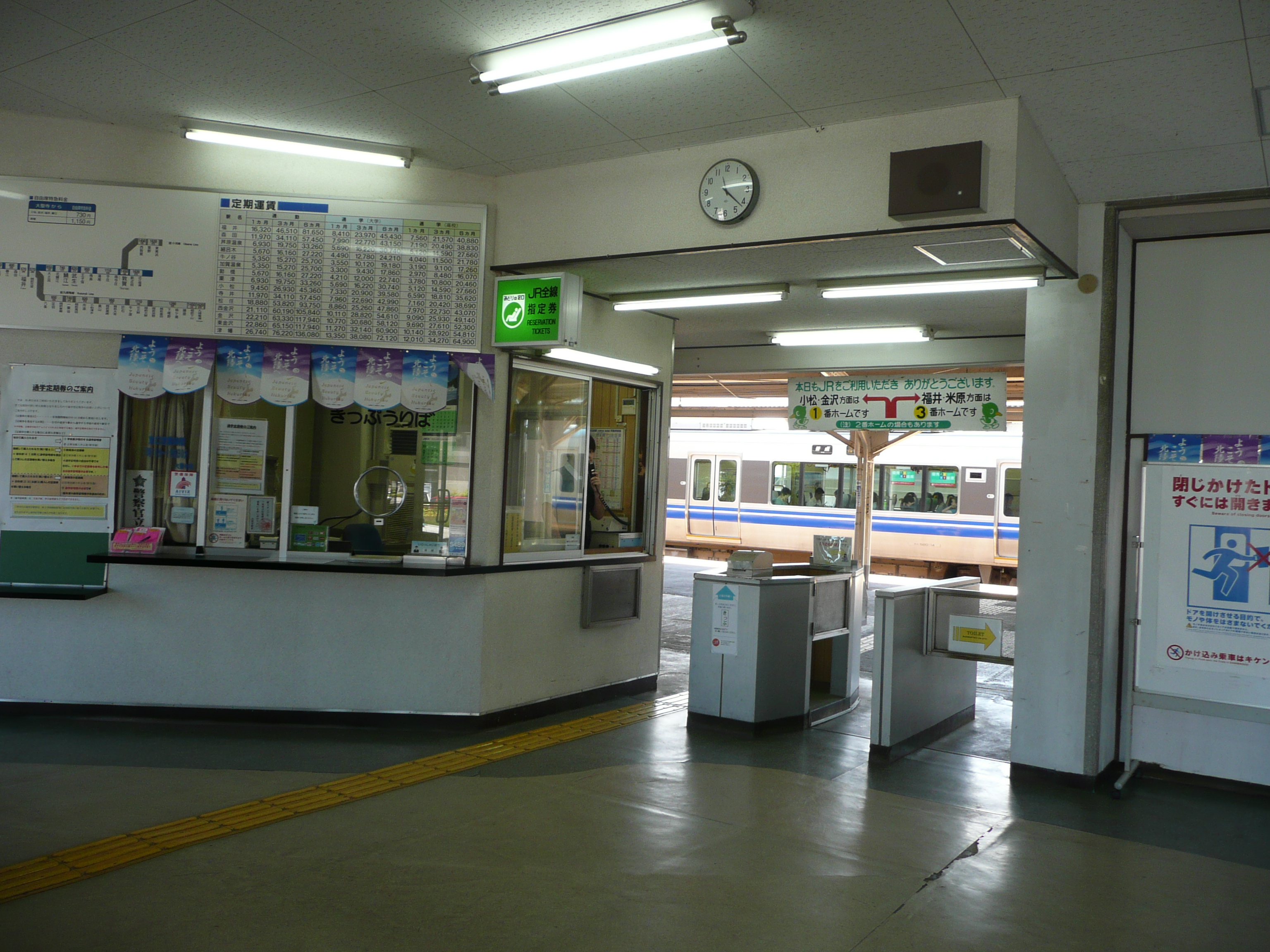 Daishoji Station ticket gate